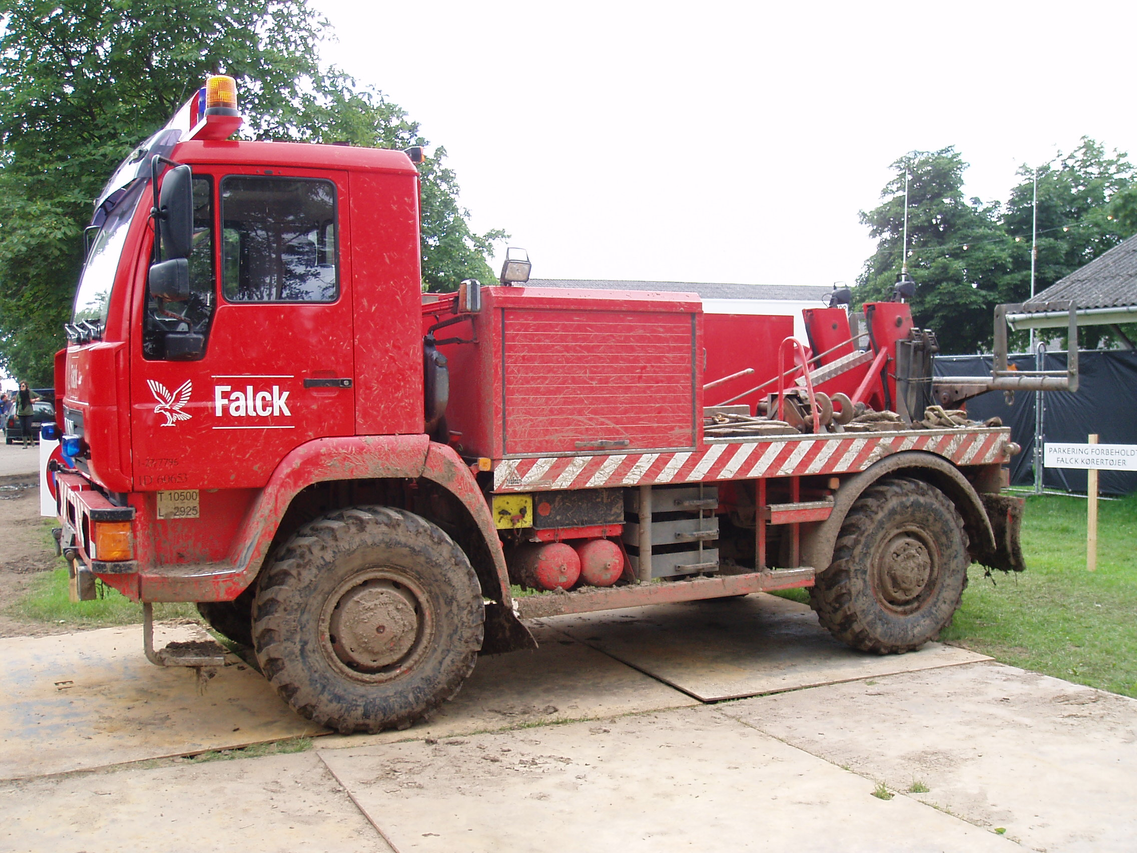 Falck terrain-going medium-duty salvage truck. For description see Image:Falck medium salvage b.jpg